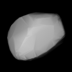 3D convex shape model of 1094 Siberia, computed using light curve inversion techniques. J. Hanuš, J. Ďurech, M. Brož, B. D. Warner (June 2011). "A study of asteroid pole-latitude distribution based on an extended set of shape models derived by the lightcurve inversion method". Astronomy and Astrophysics 530: A134. ISSN 0004-6361. arXiv